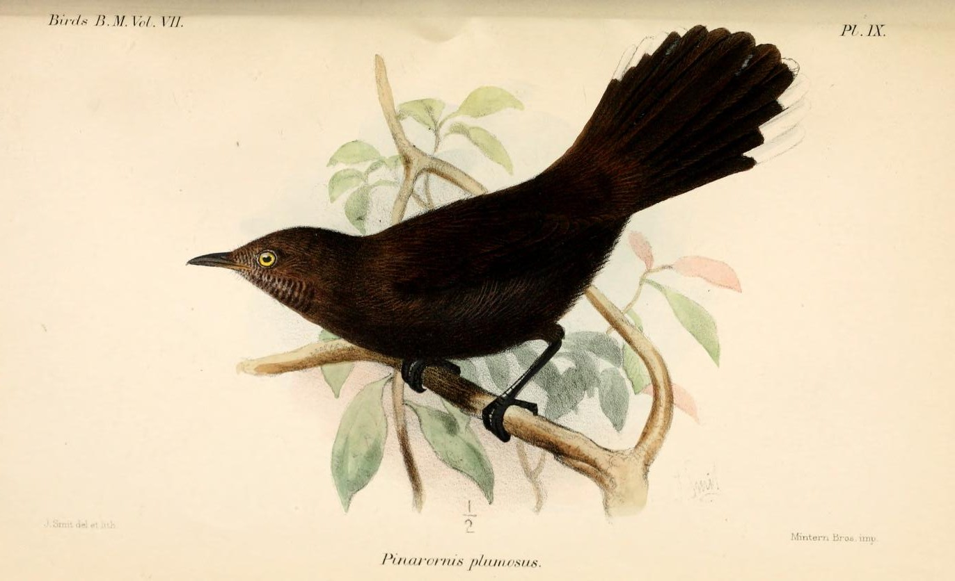 Pinarornis plumosus, Boulder Chat